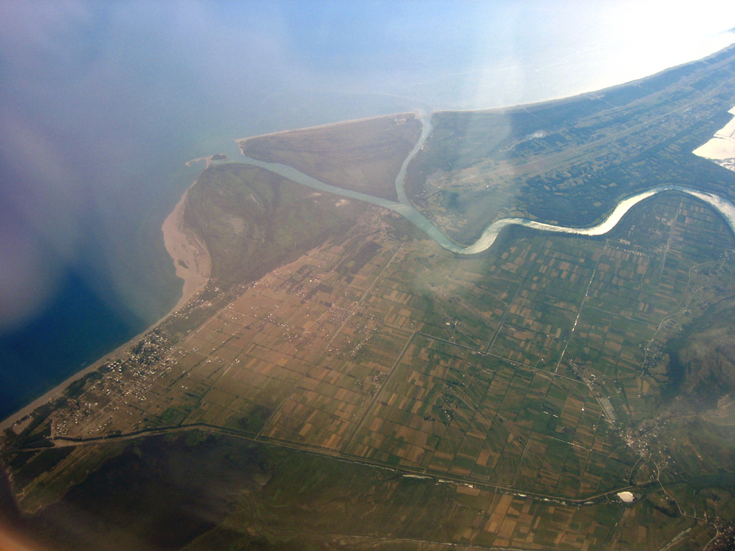 Mouth of the river Bojana/Buna in Northern Albania/Montenegro. The Albanian beach resort Velipoja to the left, Montenegro on the top of the picture.